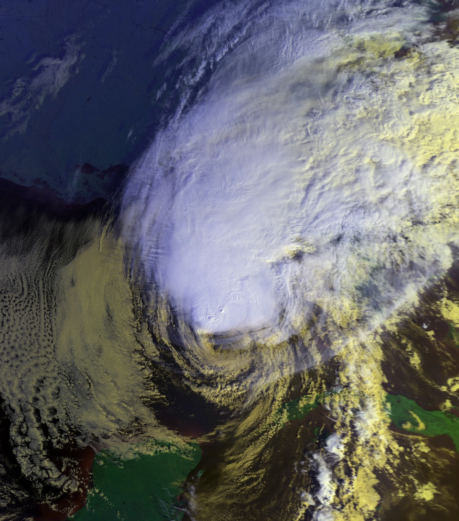 Tropical Storm Keith on November 22 at approximately 1359 UTC. This image was produced from data from NOAA-10, provided by NOAA.